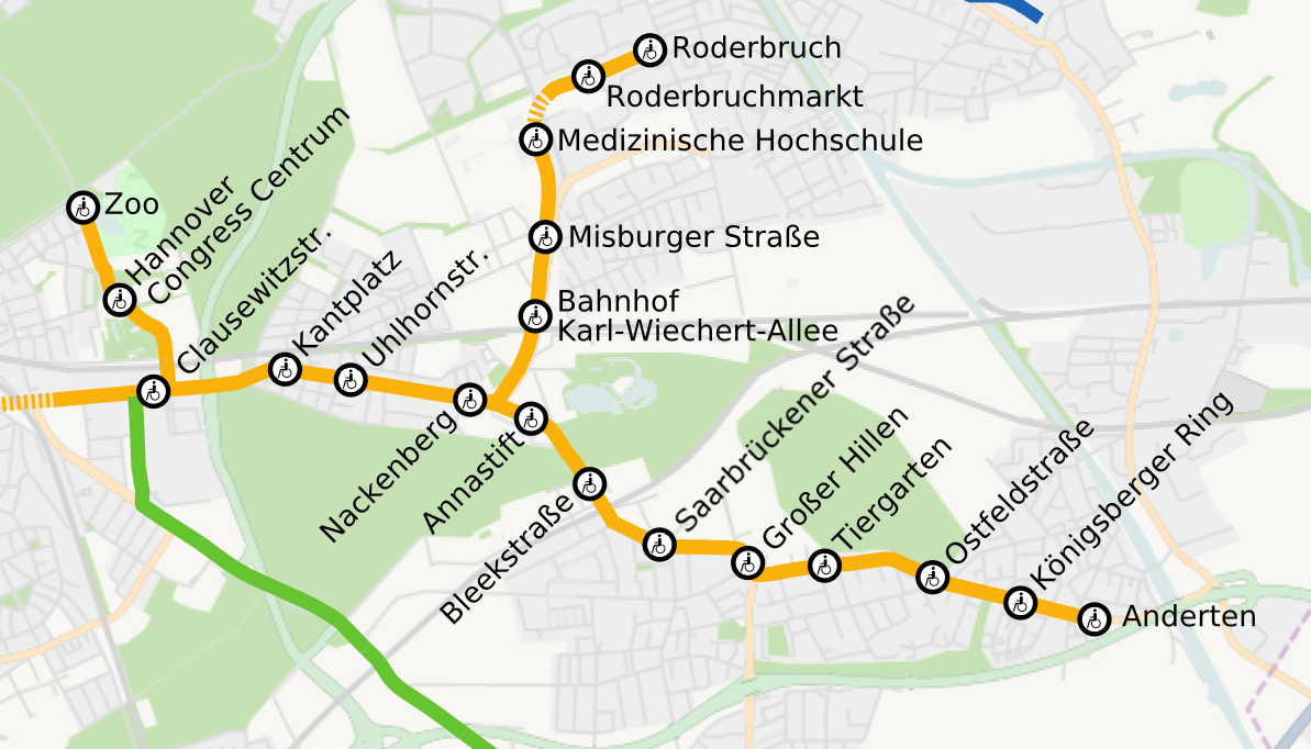 Light rail of Hannover, Germany. C East